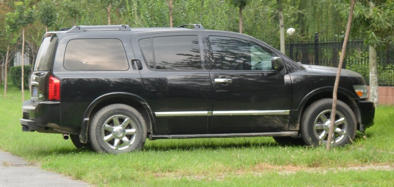 Infiniti QX JA60 photographed in Beijing, China.